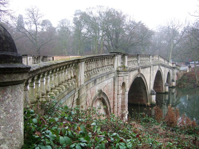 Clumber Bridge. This is the west side of 93068, from the northern shore.